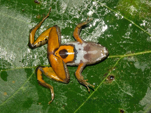 Phrynobatrachus cricogaster